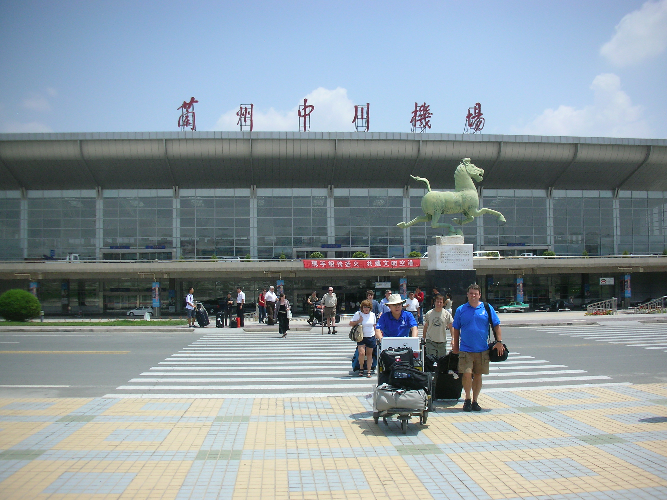 Lanzhou Airport 兰州中川机场/蘭州中川機場